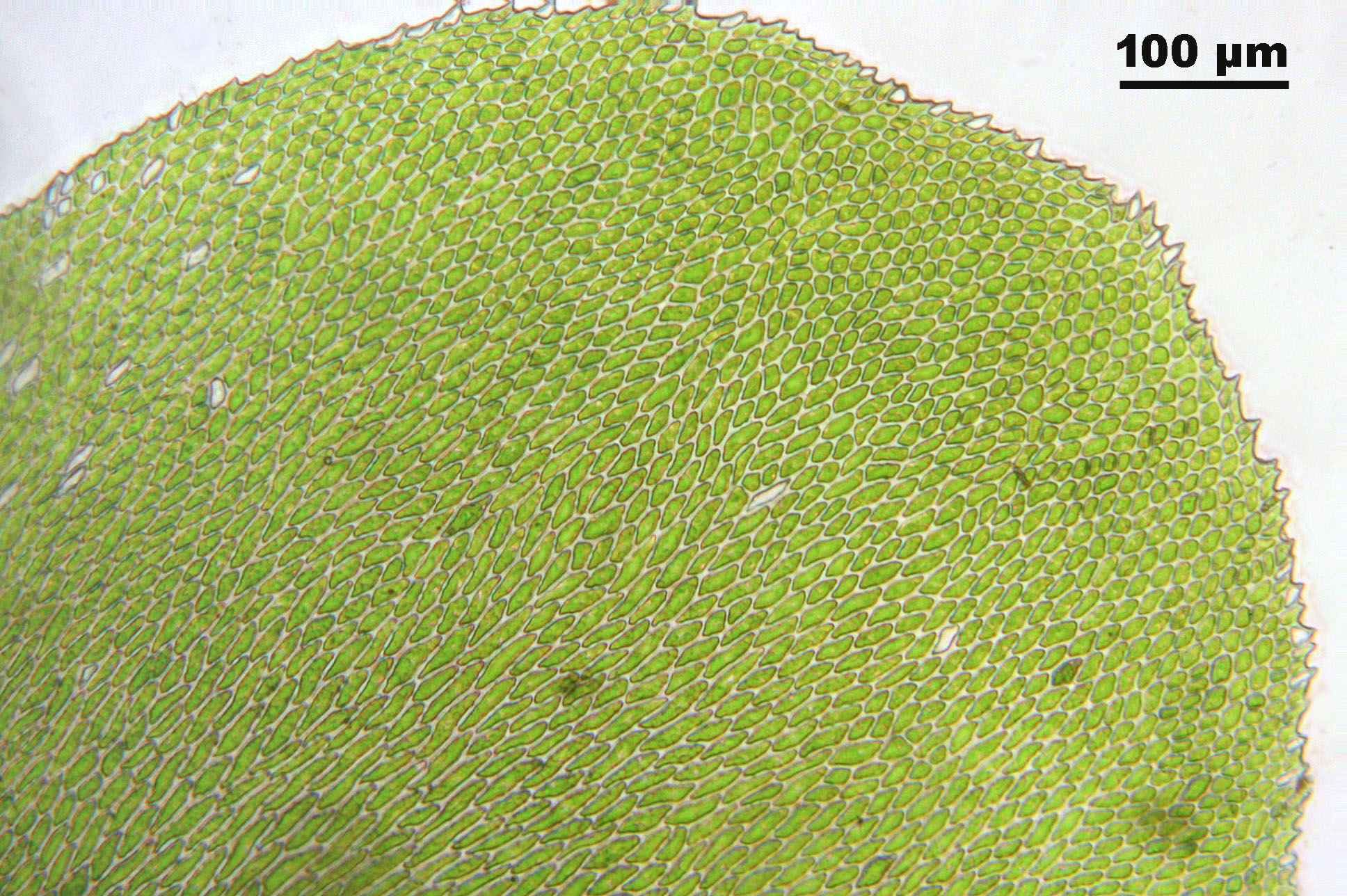 Homalia trichomanoides